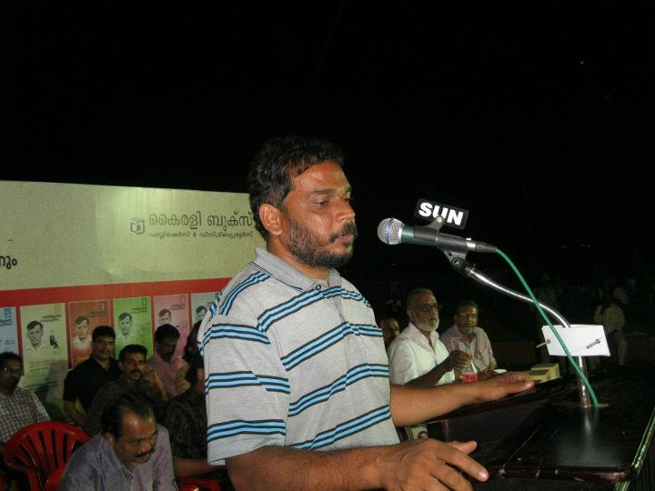 malayalam film director